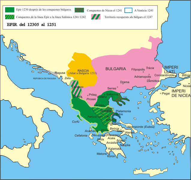 Despotate of Epirus 1205-1230